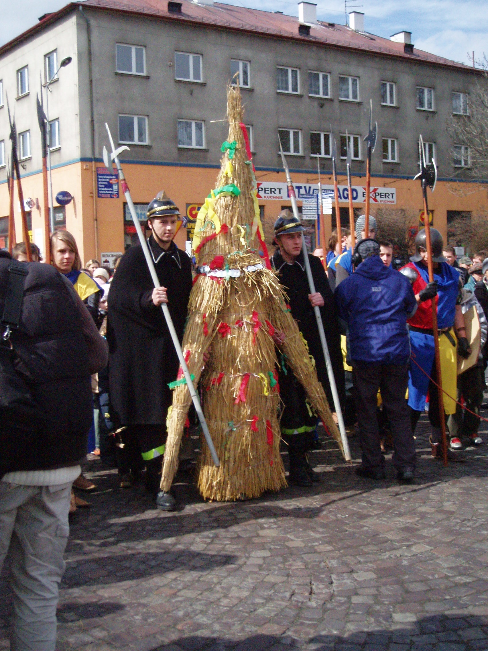 Judosz in Skoczow on 2008-03-22